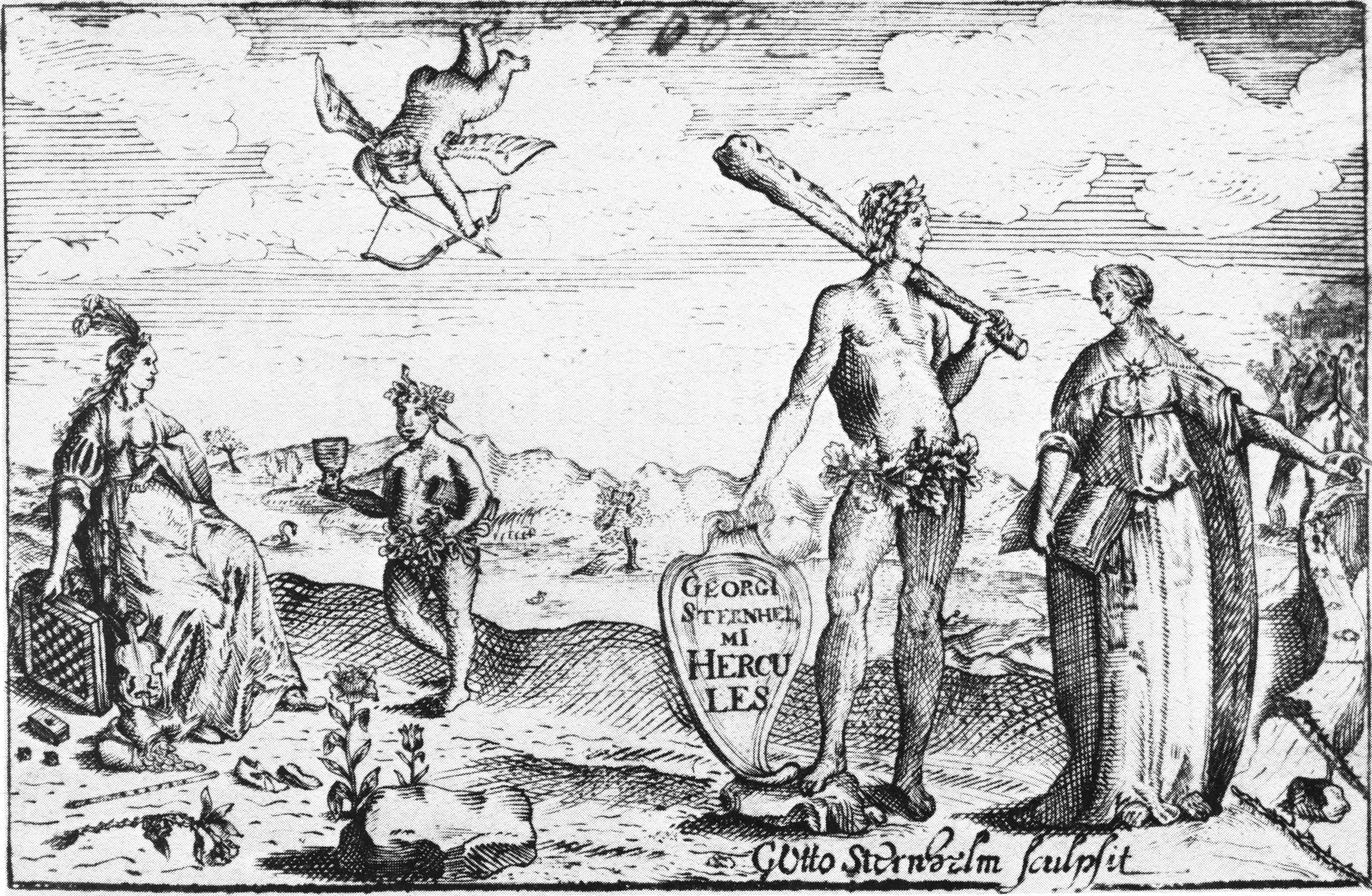 Illustration to the 1st edition of Georg Stiernhielm's Hercules, by his son (copper engraving). In the middle, Mrs. Lust and Booze to his left, Mrs. Virtue to his right.